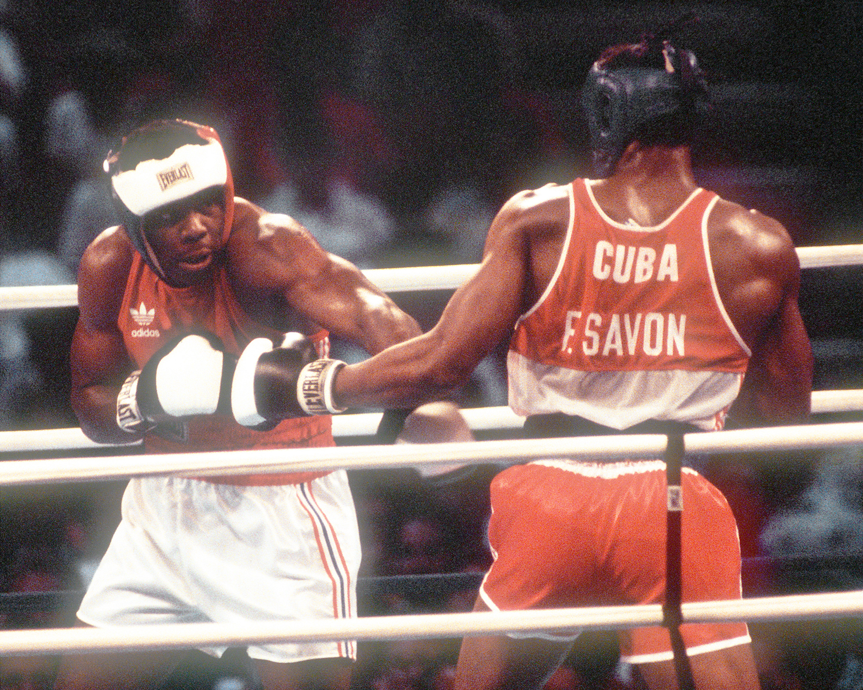 Michael Bent, comes at his Cuban opponent Félix Savón with a right jab during a bout at the 10th Annual Pan American Games. Bent, who won a bronze medal in the 91 kilogram weight class.